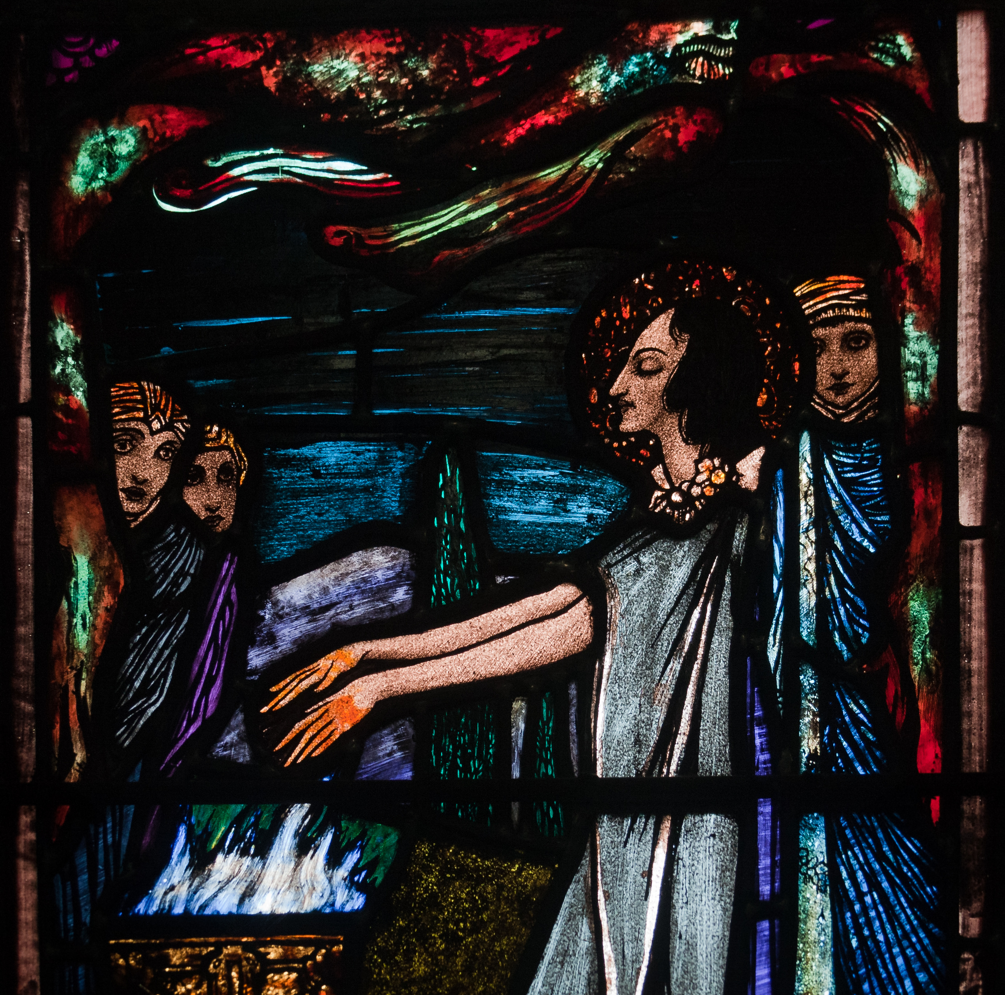 Detail of the bottom panel of the left light of the fifth window in the south aisle, depicting St Rose burning her hands in an act of penance. This stained glass window was created by Harry Clarke in 1925. Harry Clarke (1889–1931) Alternative names Henry Patrick ClarkeDescriptionBritish artistDate of birth/death 17 March 1889 6 January 1931 Location of birth/death Dublin ChurAuthority control : Q981851 VIAF: 64809213 ISNI: 0000 0000 7729 3084 ULAN: 500005071 LCCN: n80127749 NLA: 35207551 WorldCat creator QS:P170,Q981851